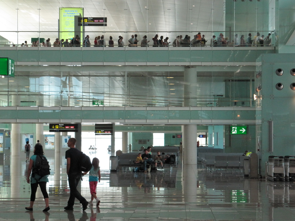 Barcelona´s Airport New Terminal T1